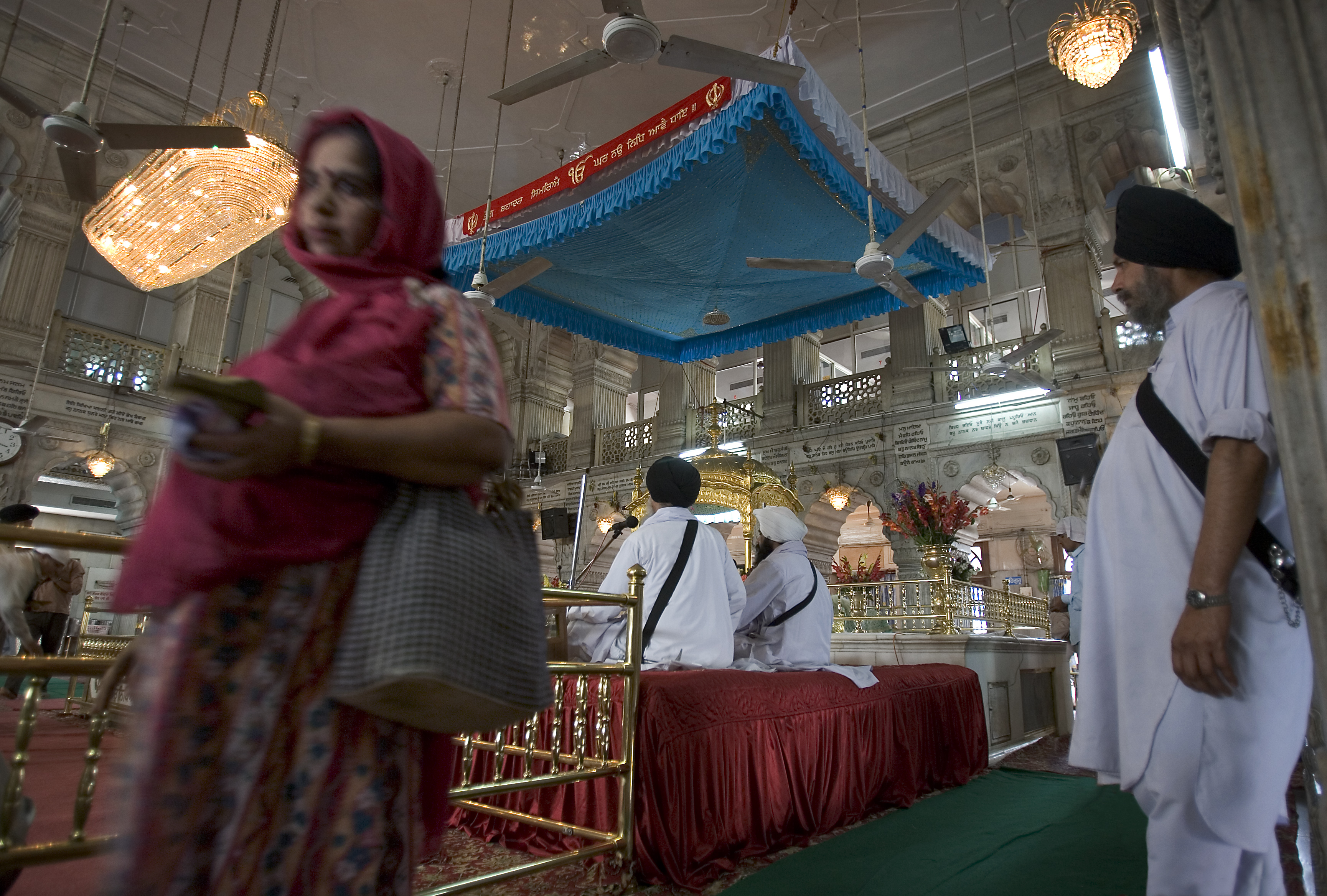 Gurdwara Sri Guru Sis Ganj Sahib temple India Delhi Chandni Chowk